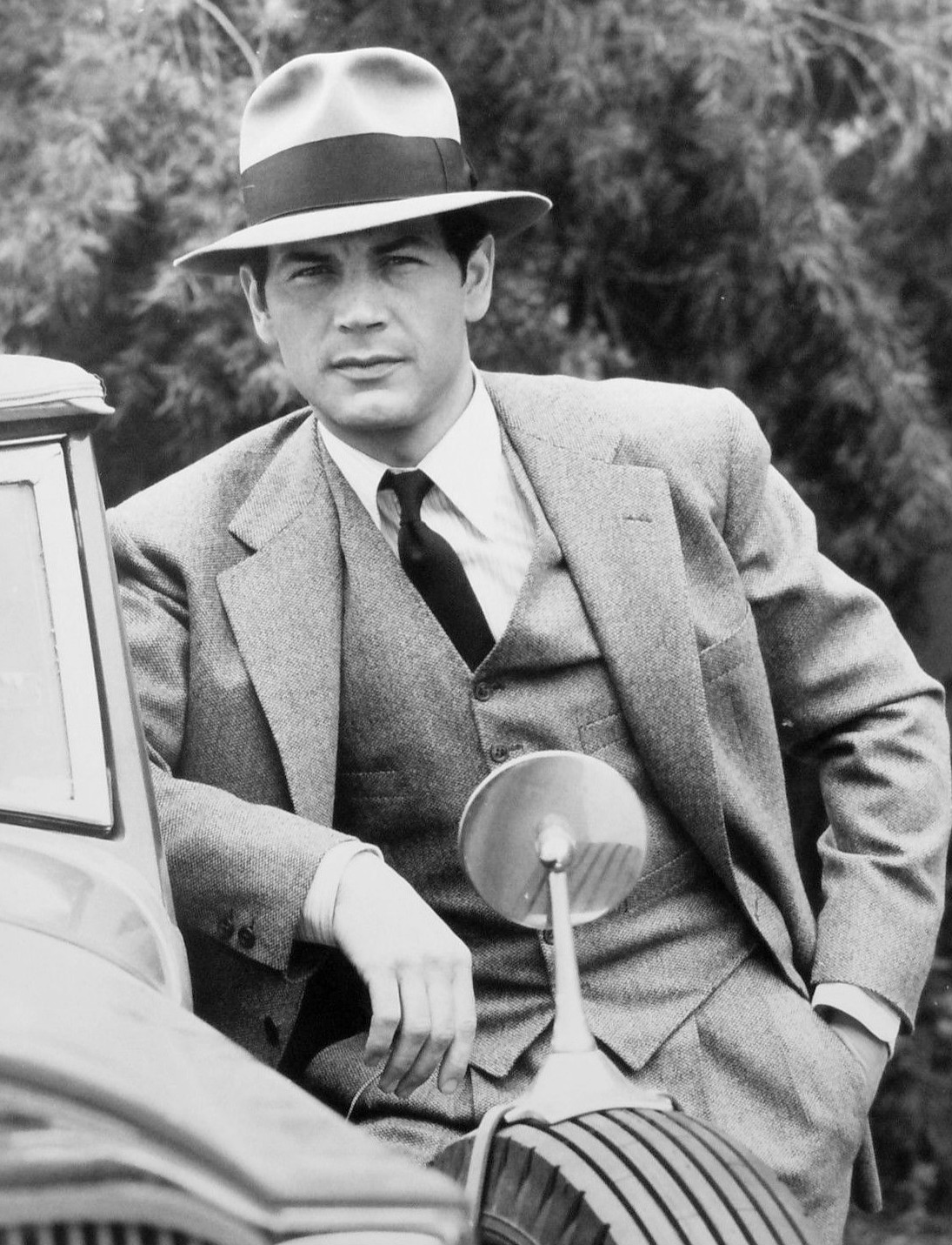 Photo of Robert Forster as the title character of the television program Banyon.